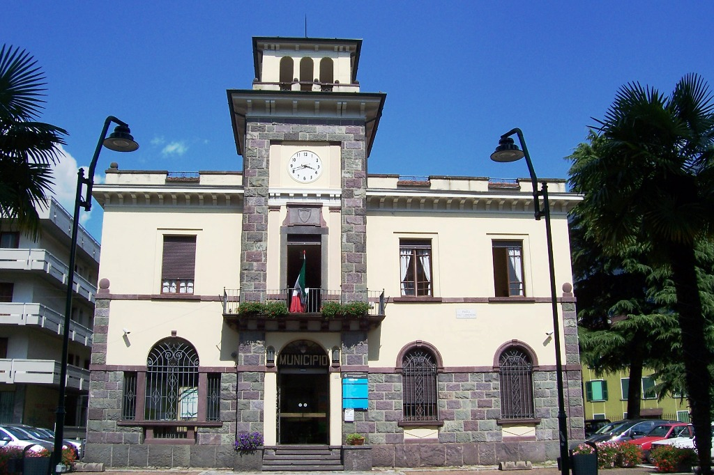 Townhall. Darfo Boario Terme, Valle Camonica